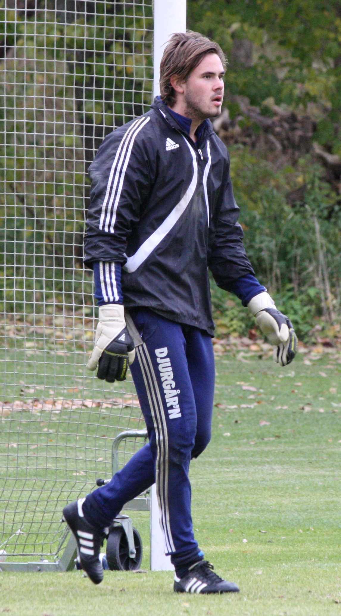 Swedish footballer Tommi Vaiho.